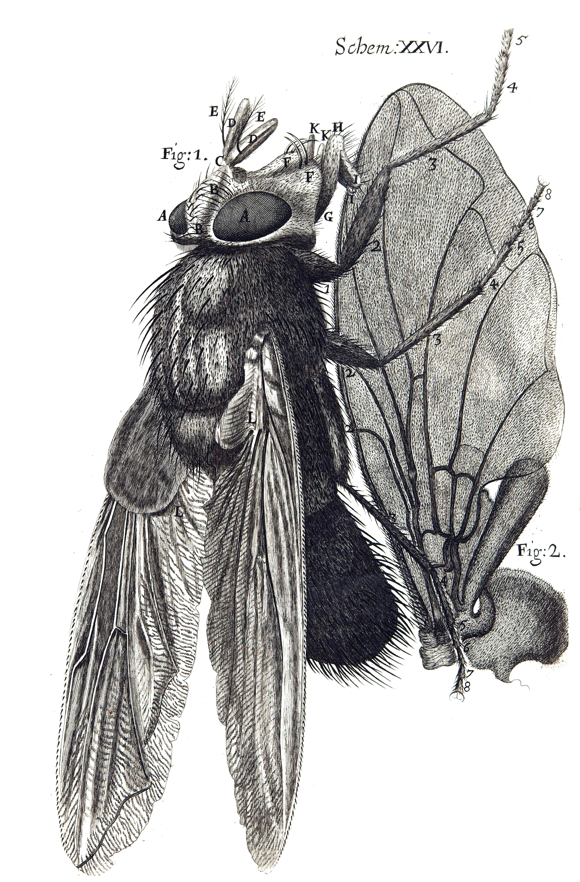 Schem. XXIV - Of the Structure and motion of the Wings of Flies. An illustration of a Blue Fly thought to have been drawn by Sir Christopher Wren